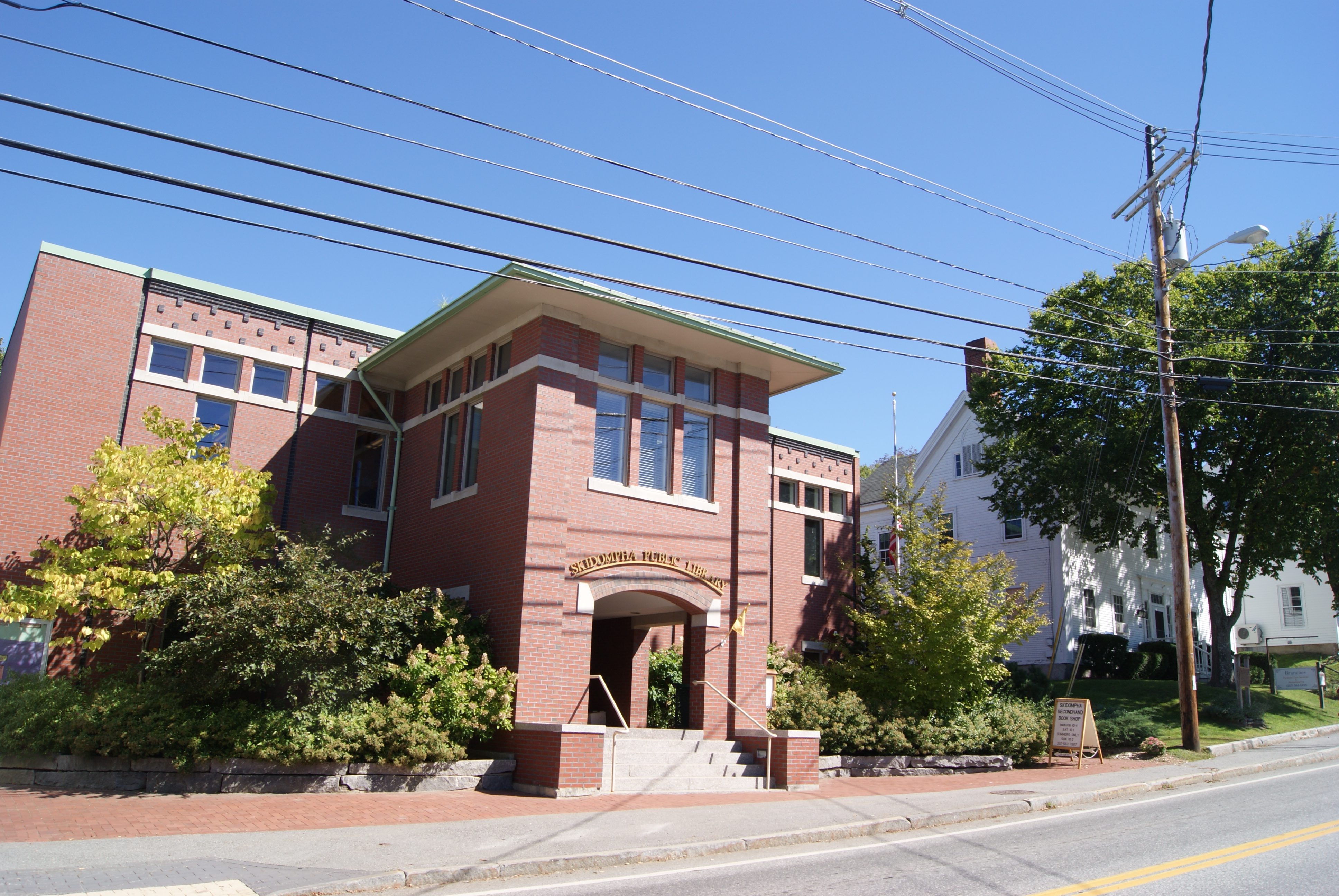 Skidompha Public Library at 184 Main Street, Damariscotta, Maine, USA.